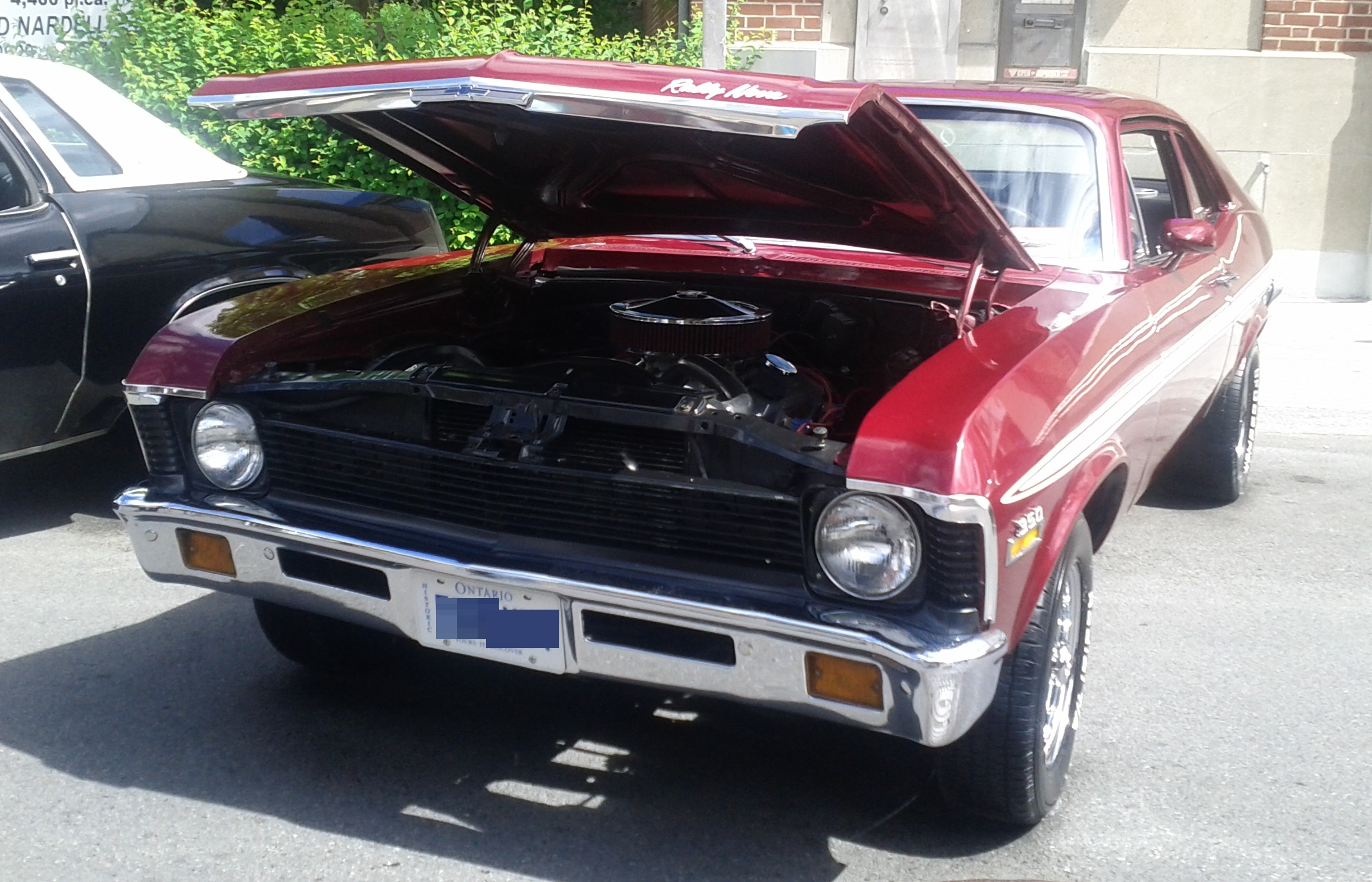 Chevrolet Nova Rally photographed in Ste. Anne De Bellevue, Quebec, Canada at Cruisin' At The Boardwalk.